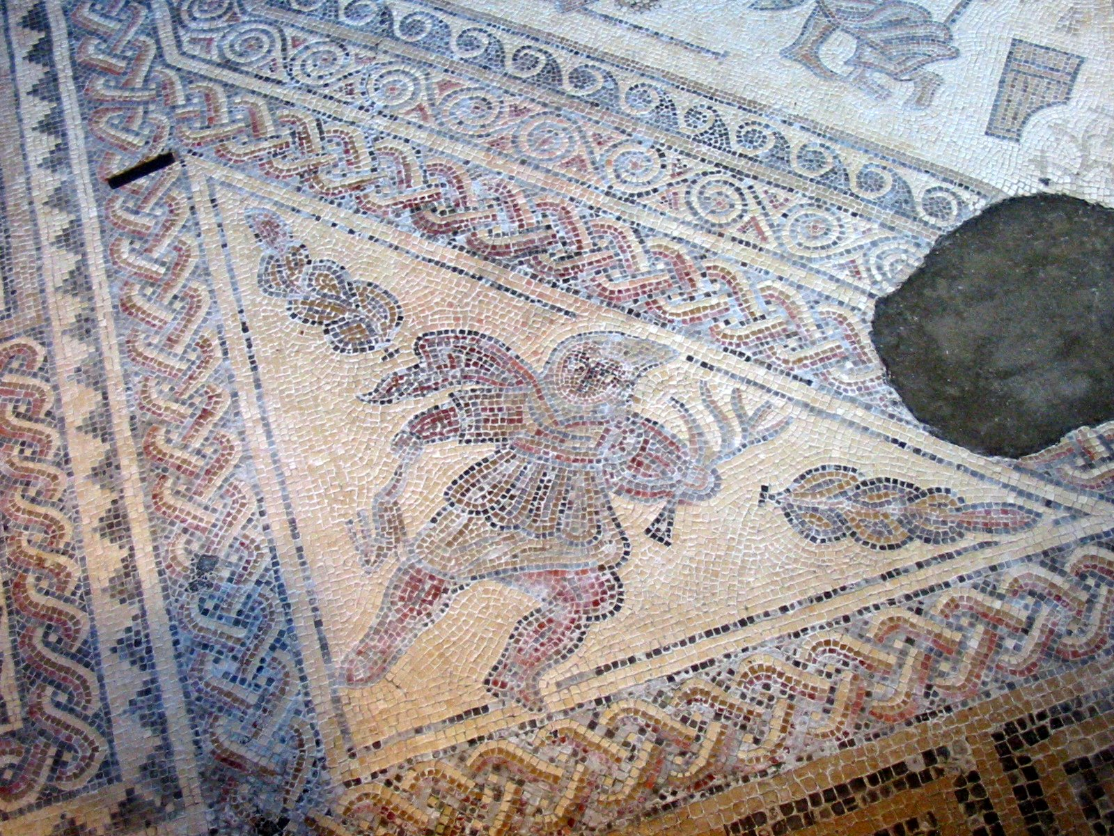 Detail of a mosaic at the Roman villa at Chedworth, Gloucestershire, England.